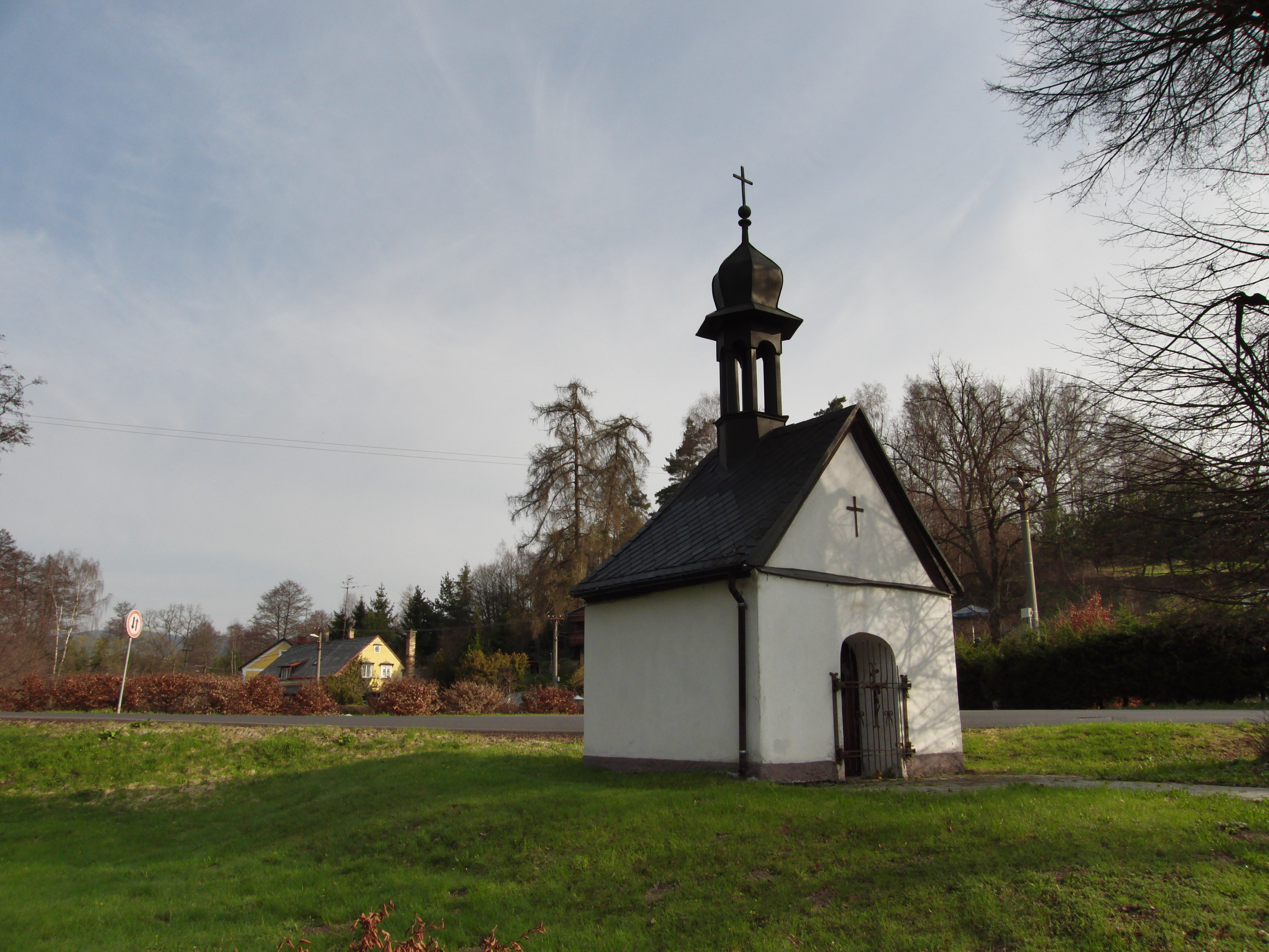 Chapel in Nivy (Děpoltovice), cultural monument